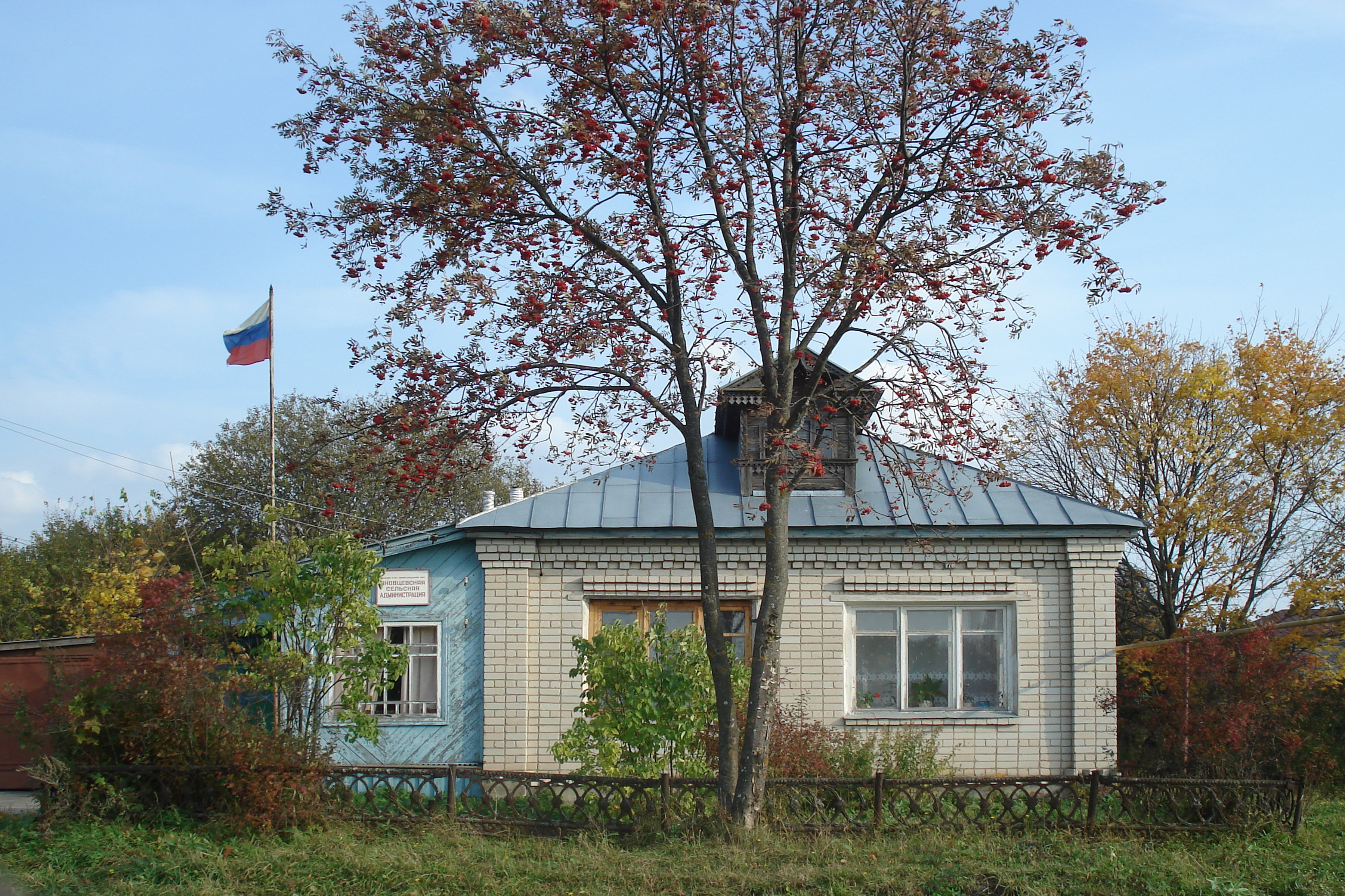 Rural Administration in the village of Yakovtcevo. Nizhegorodskaya oblast. Russia.